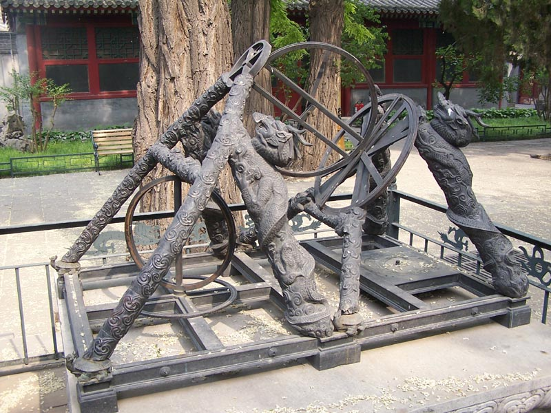 simplified armilla in Beijing Ancient Observatory